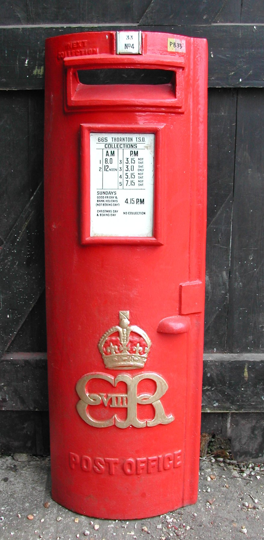 Edward VIII door from a Type A or Type B pillar box at Colne valley Postal History Museum, Halstead, Essex Photo 20/3/07 Coolpix 885 by Kitmaster 11:16, 22 March 2007 (UTC)